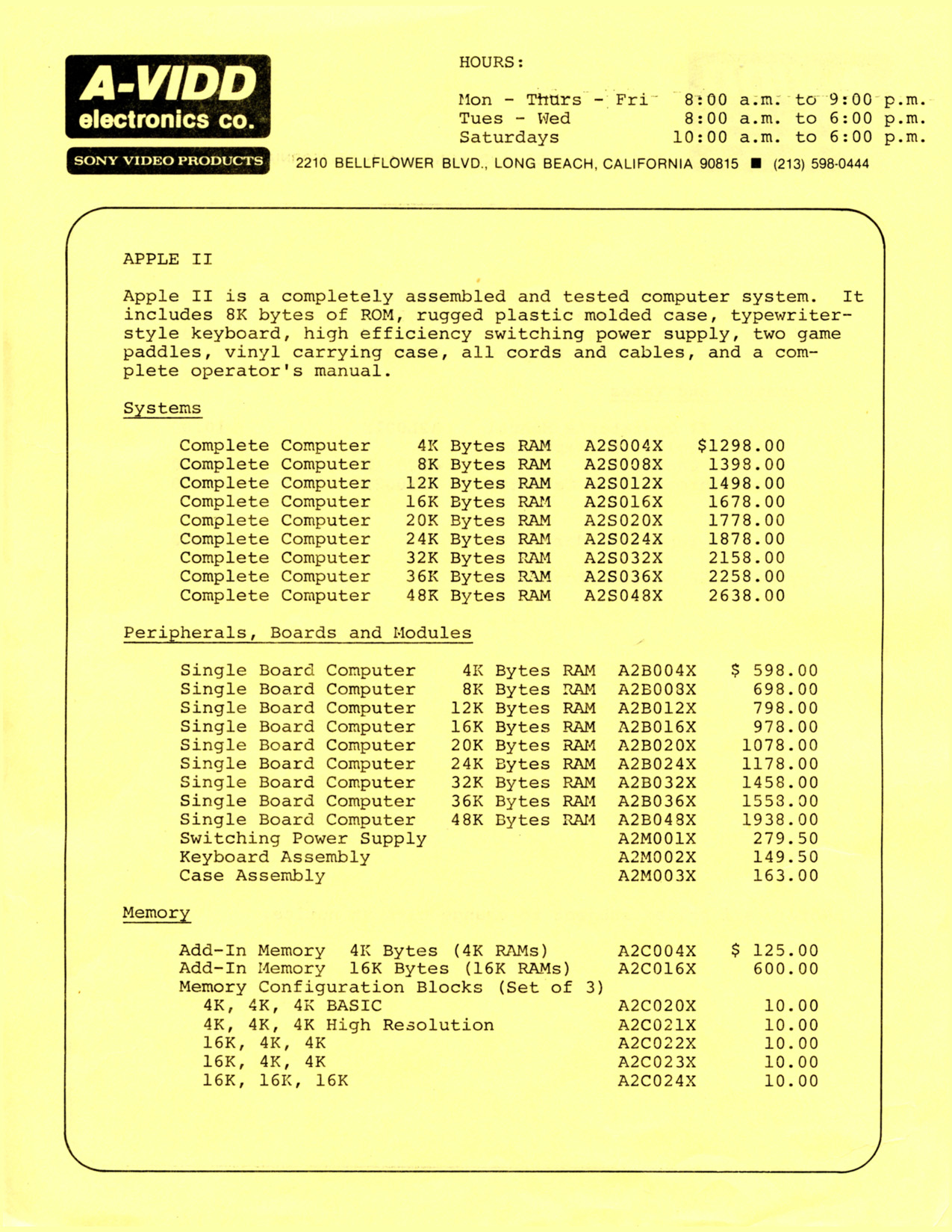 An in-store price list on Apple computer products. This price list was picked up in late 1977 at the A-Vidd Electronics store in Long Beach, California by Michael Holley.